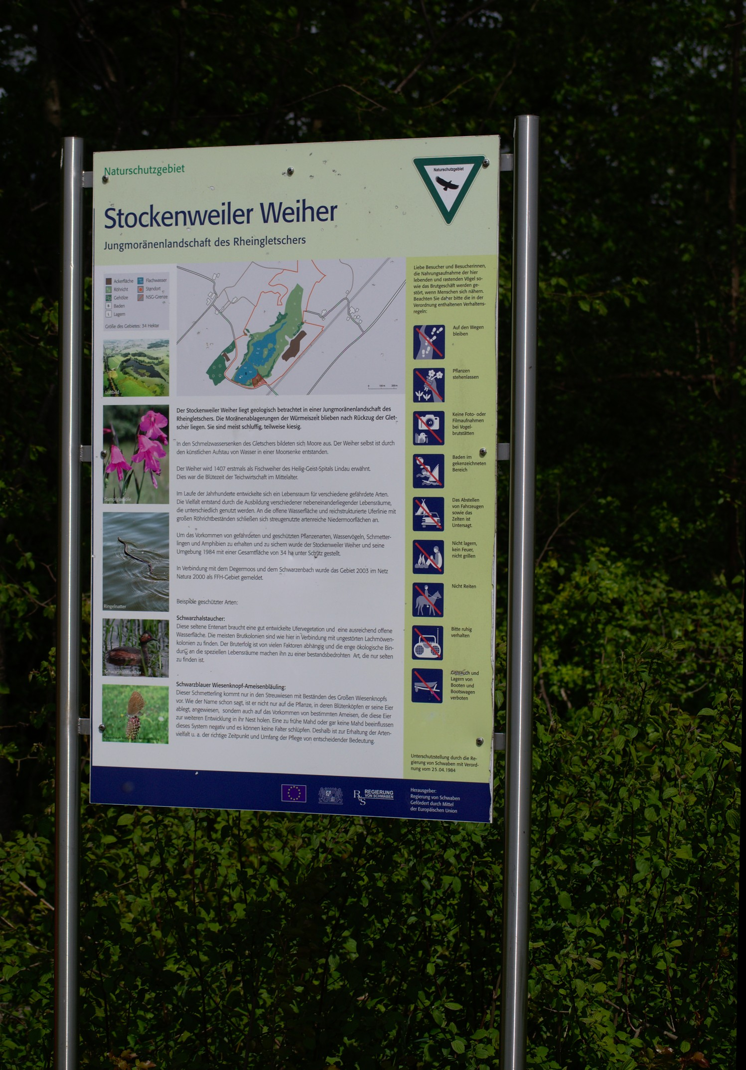 Protected area Stockenweiler Weiher ~ information board